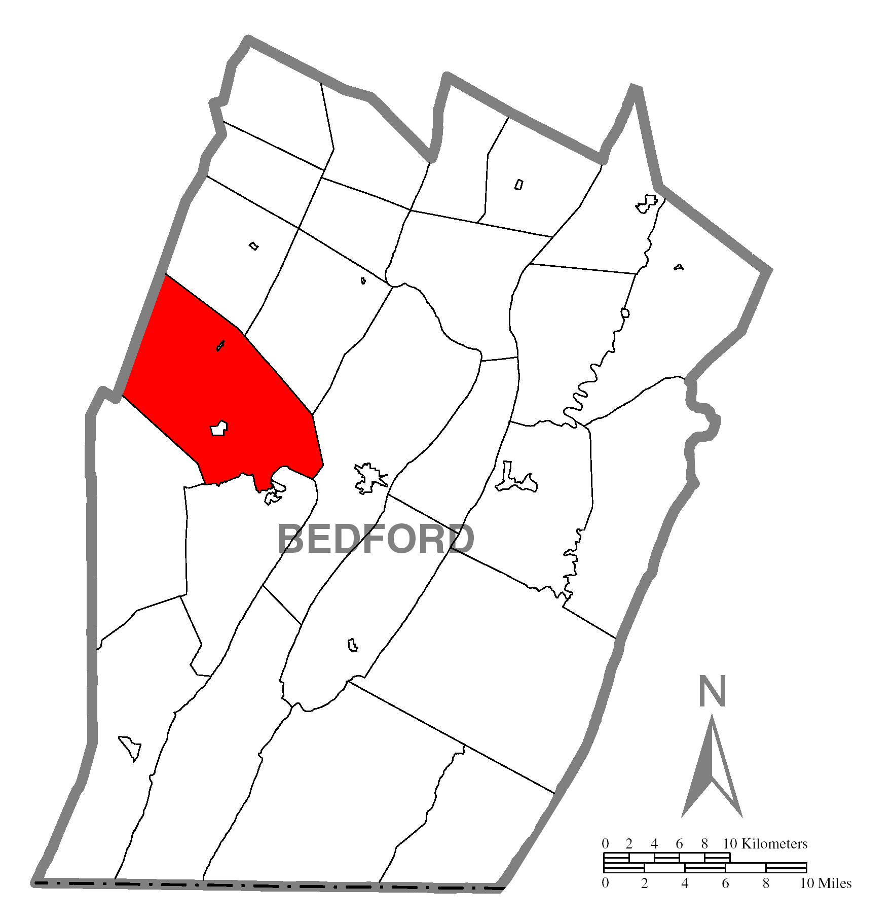 A map of Bedford County showing Napier Township, Pennsylvania (alternate) highlighted on the map.